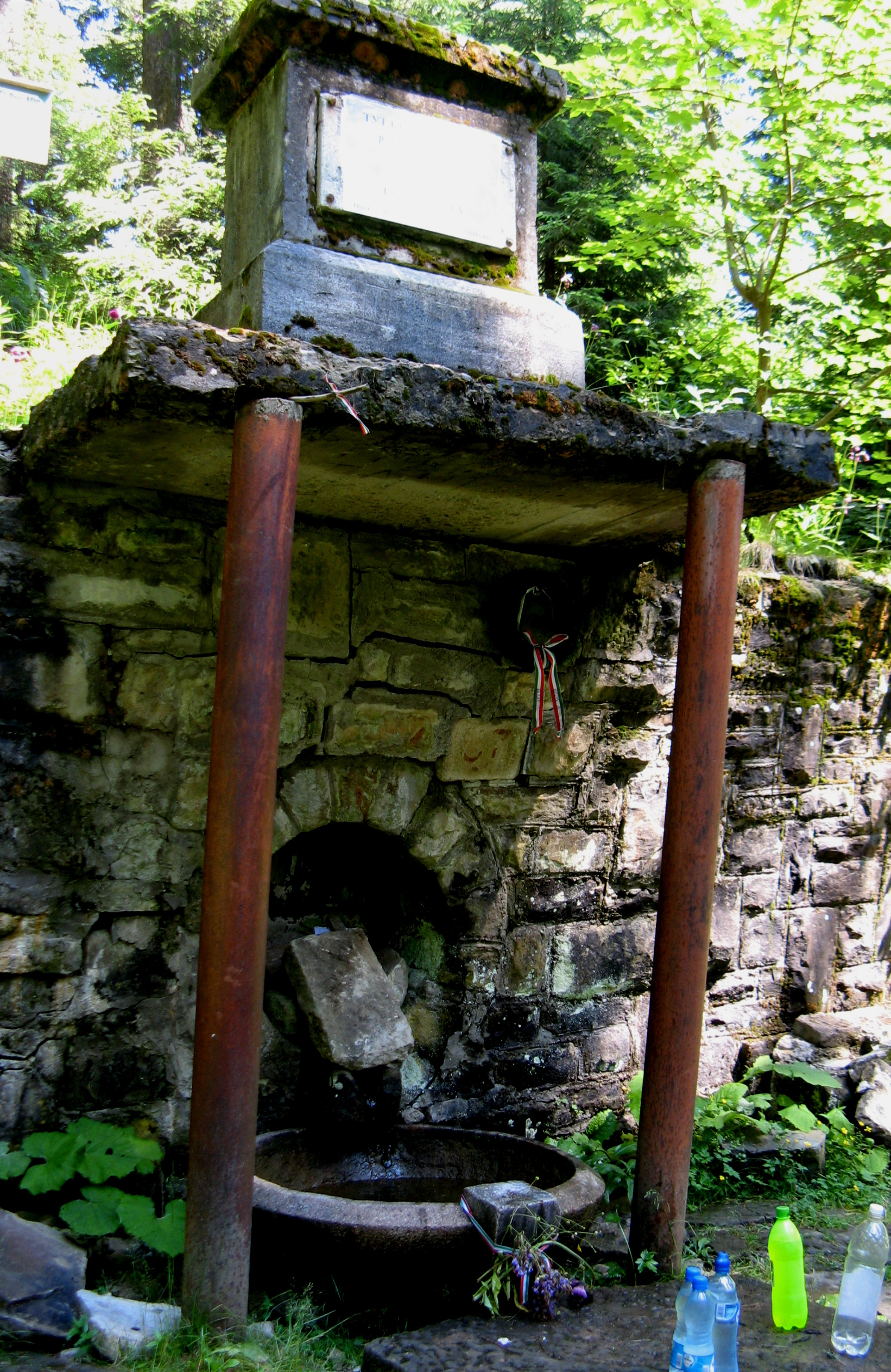 spring of the Black Tisza river under Okole pass in Ukraine